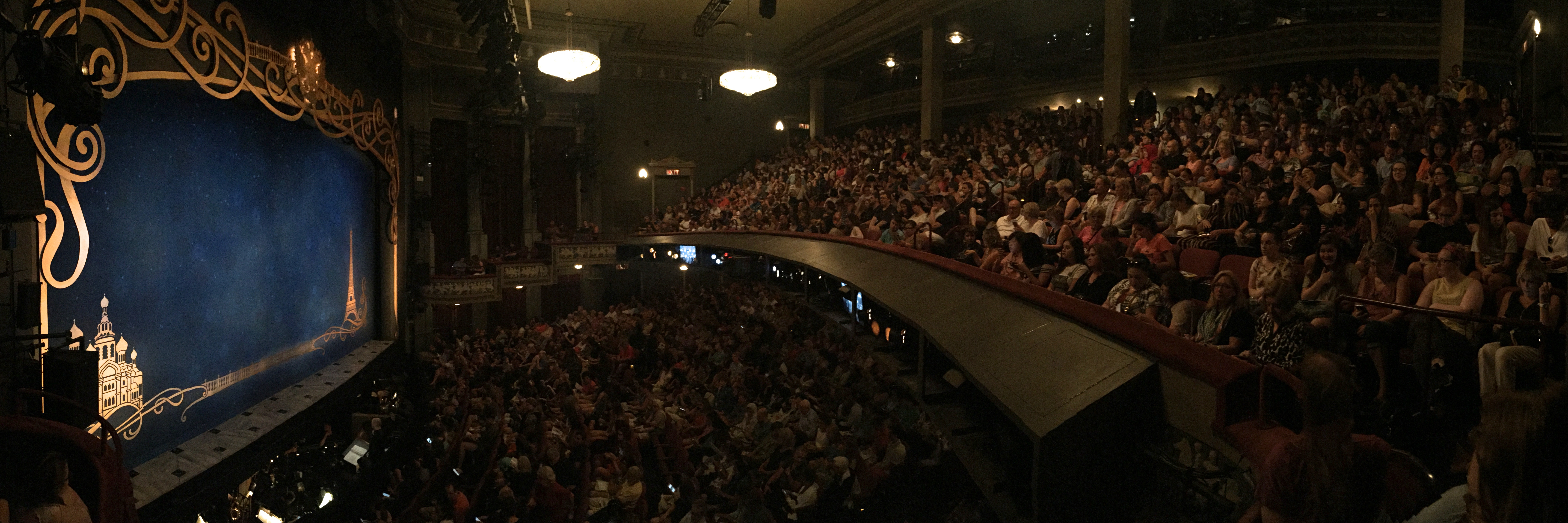 Interior Panorama of Broadhurst Theatre. View from Box C on stage right. Proscenium arch at left of image, audience on right.